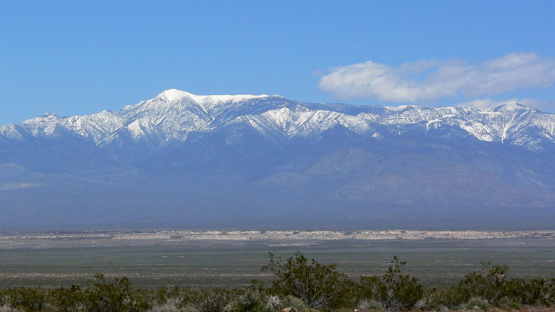 Mount Charleston, Spring Mountains, Nevada, seen from the west